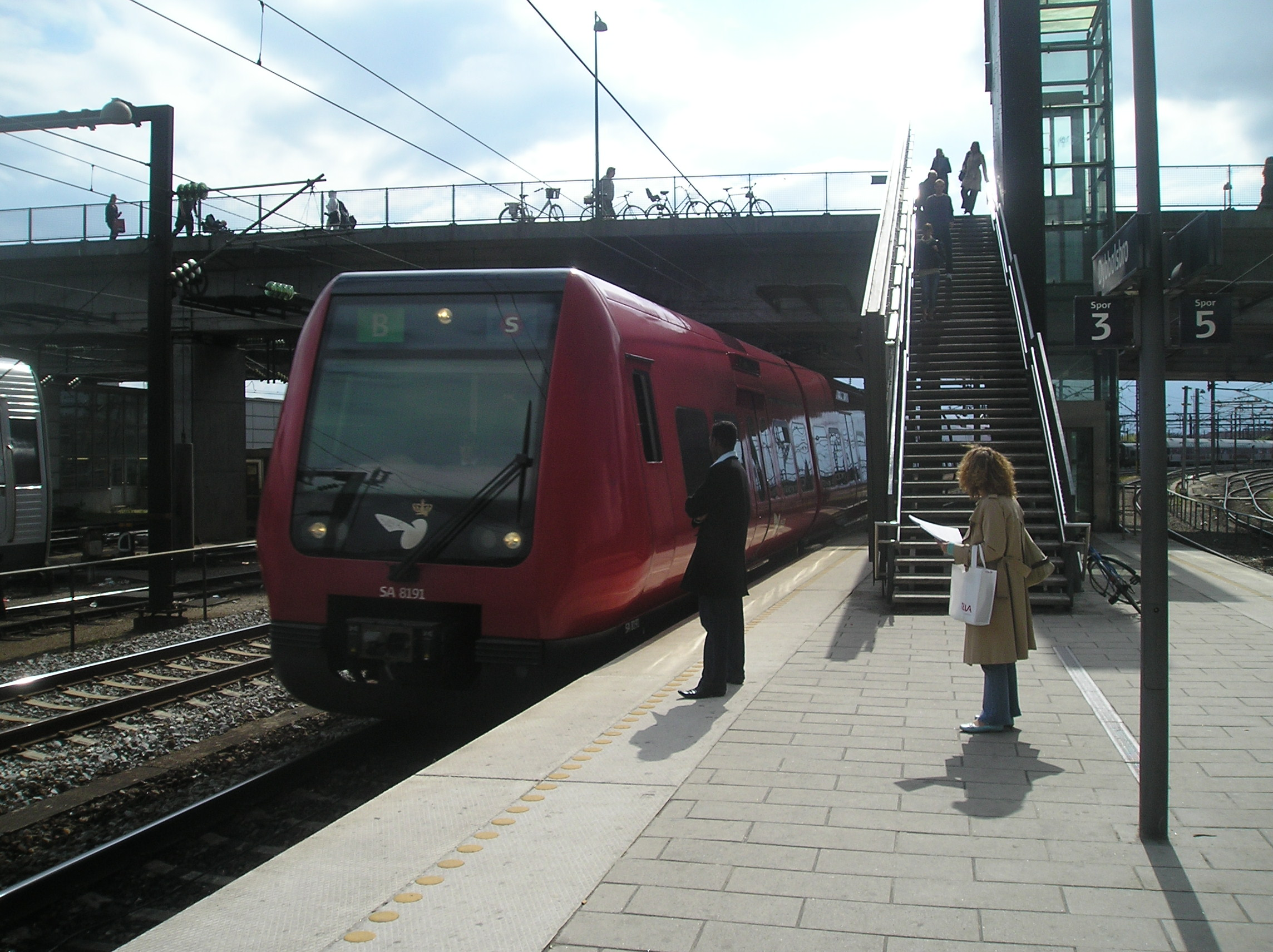 Copenhagen S-train station Dybbølsbro.